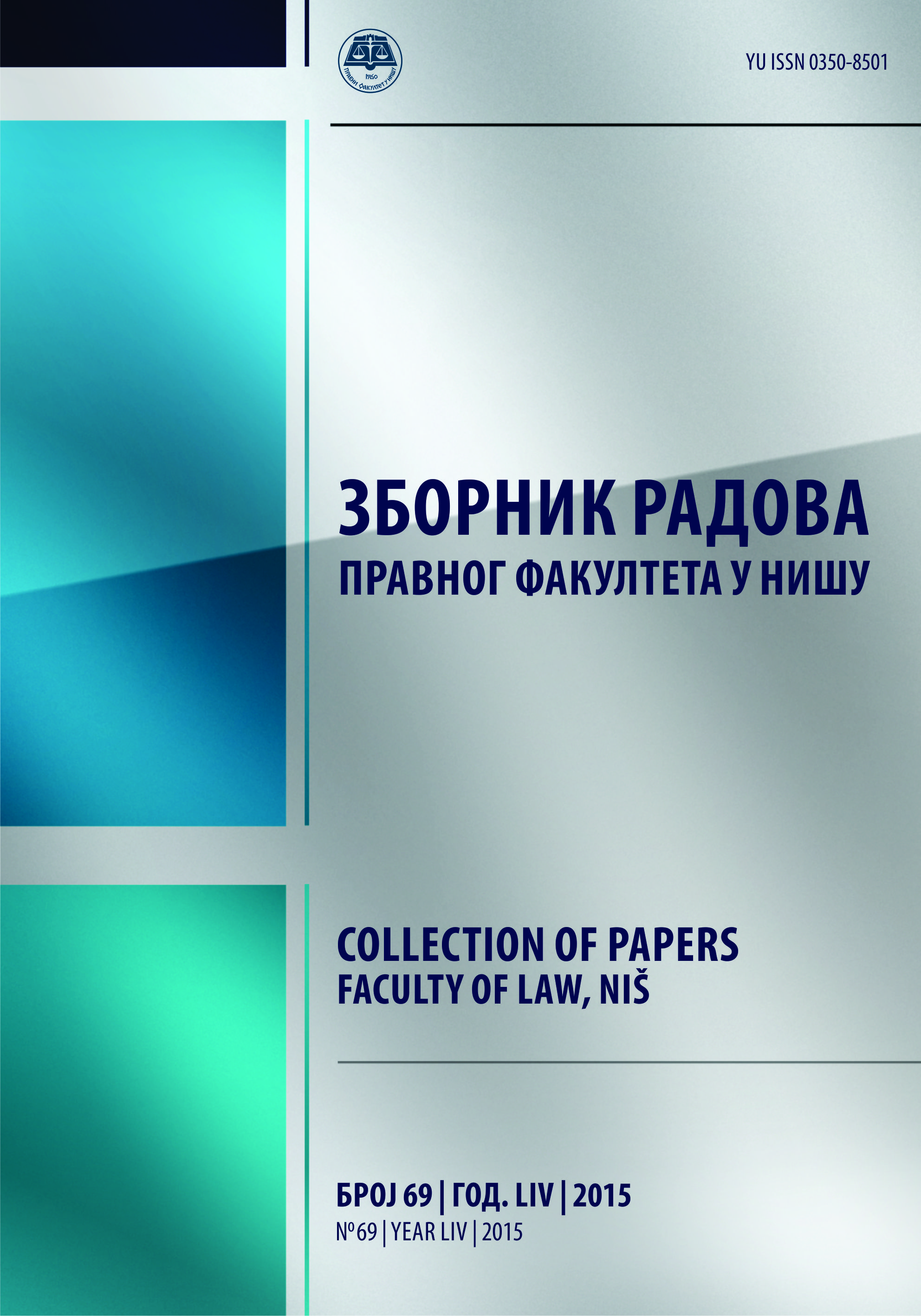 Cover of journal Zbornik radova Pravnog fakulteta Univerziteta u Nisu, 2015 Srpski (latinica): Korice naučnog časopisa Zbornik radova Pravnog fakulteta Univerziteta u Nišu, 2015, Niš, Srbija